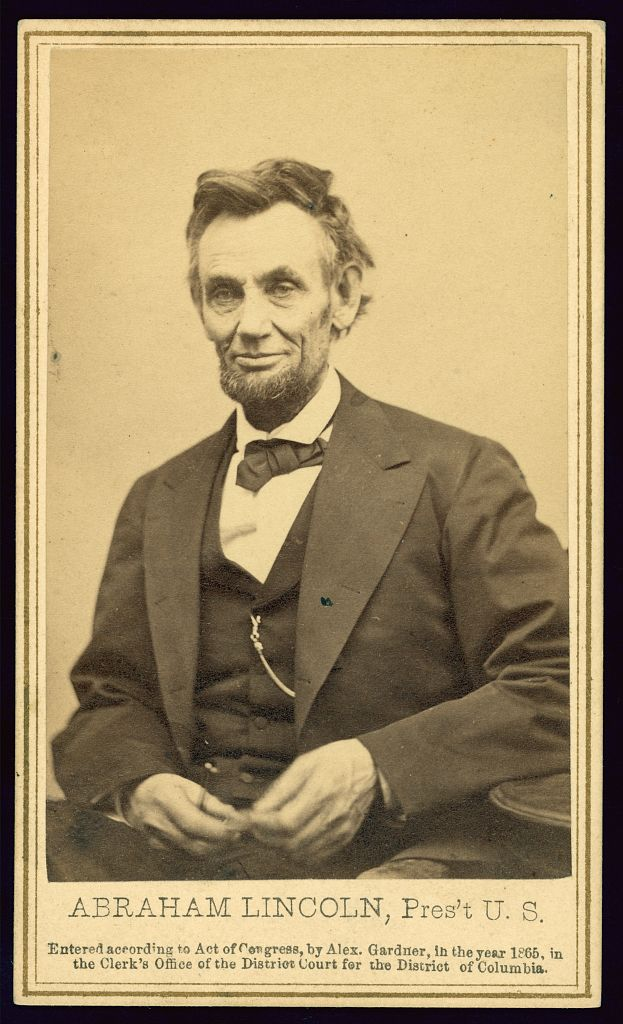 Photograph from the last formal portrait sitting, Feb. 5, 1865, in Washington, D.C. "One of five poses taken by Gardner ten weeks before the President was assassinated." (Source: Ostendorf, p. 219)